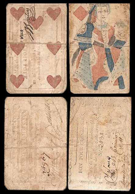 Obverse and reverse of playing card money (billets de confiance), Saint-Maixent. Left is a seven of hearts, with a value of 3 sols (cents). Right is a queen of diamonds, worth 15 sols (cents).